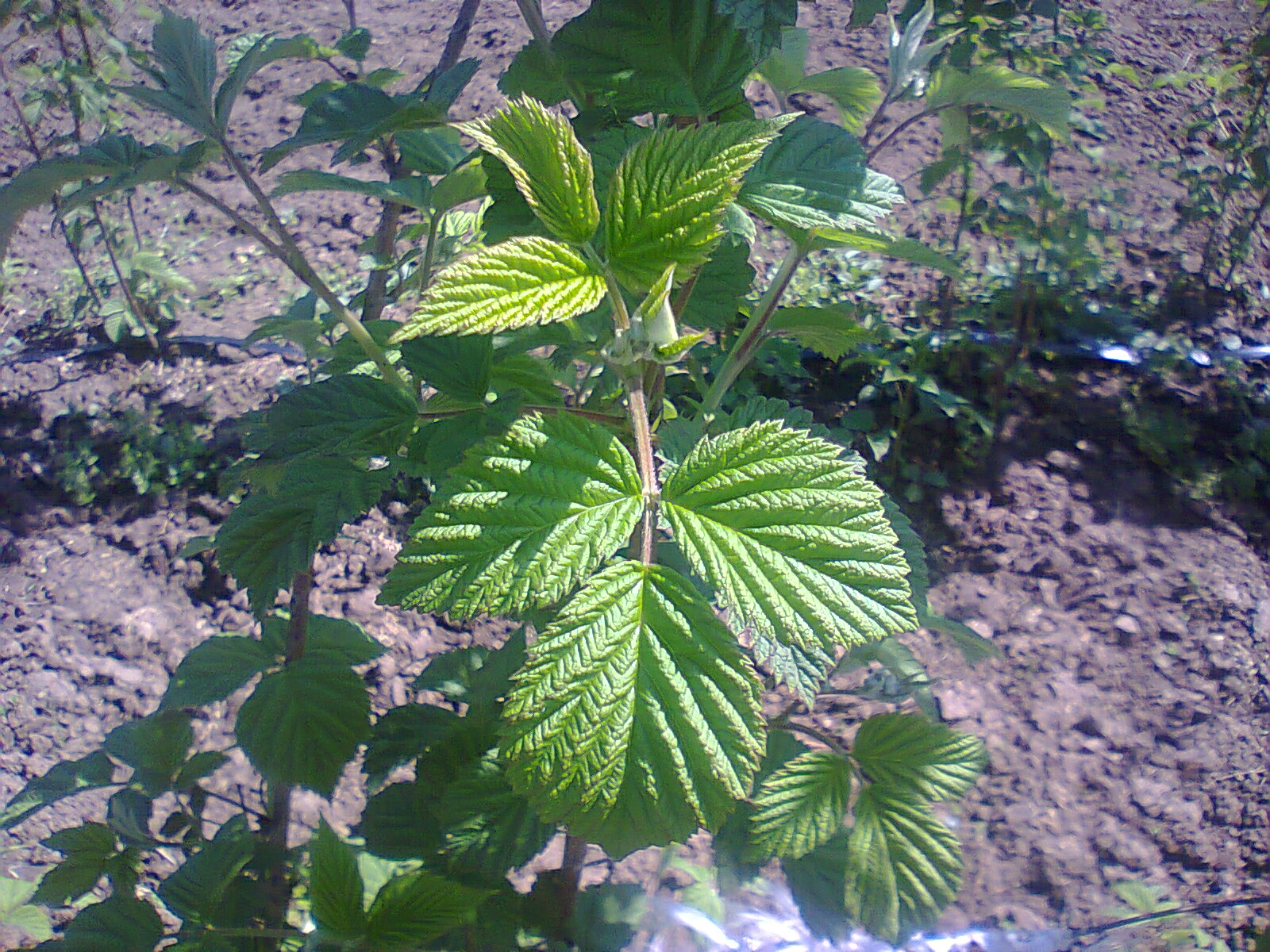 Raspberry leaf in april.